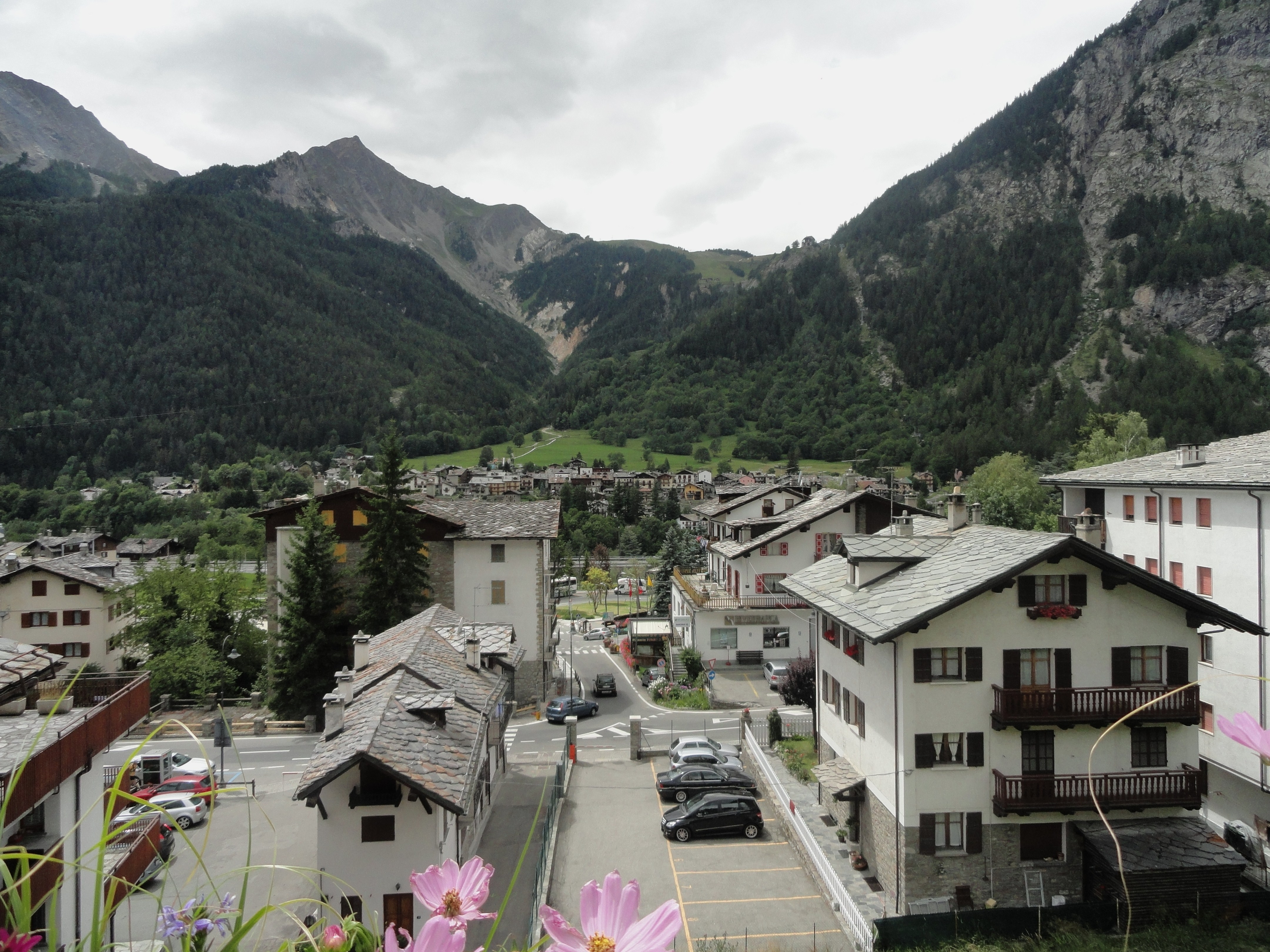 Wide view from city center